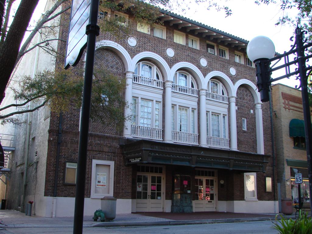 This is the Aladdin Theater in Cocoa, Florida. March 24, 2007.